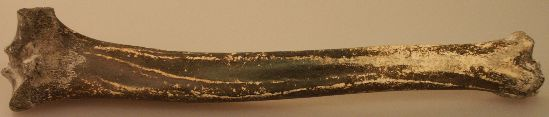 deer bone, hartlepool museum service